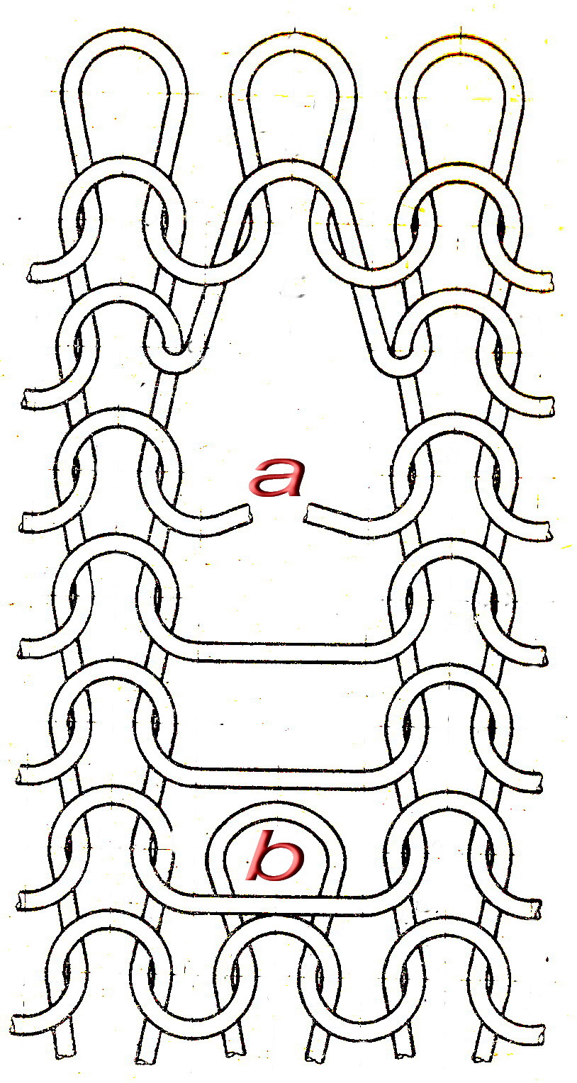 Laddering in weft knit. a) Broken yarn, b) dropped stitch.